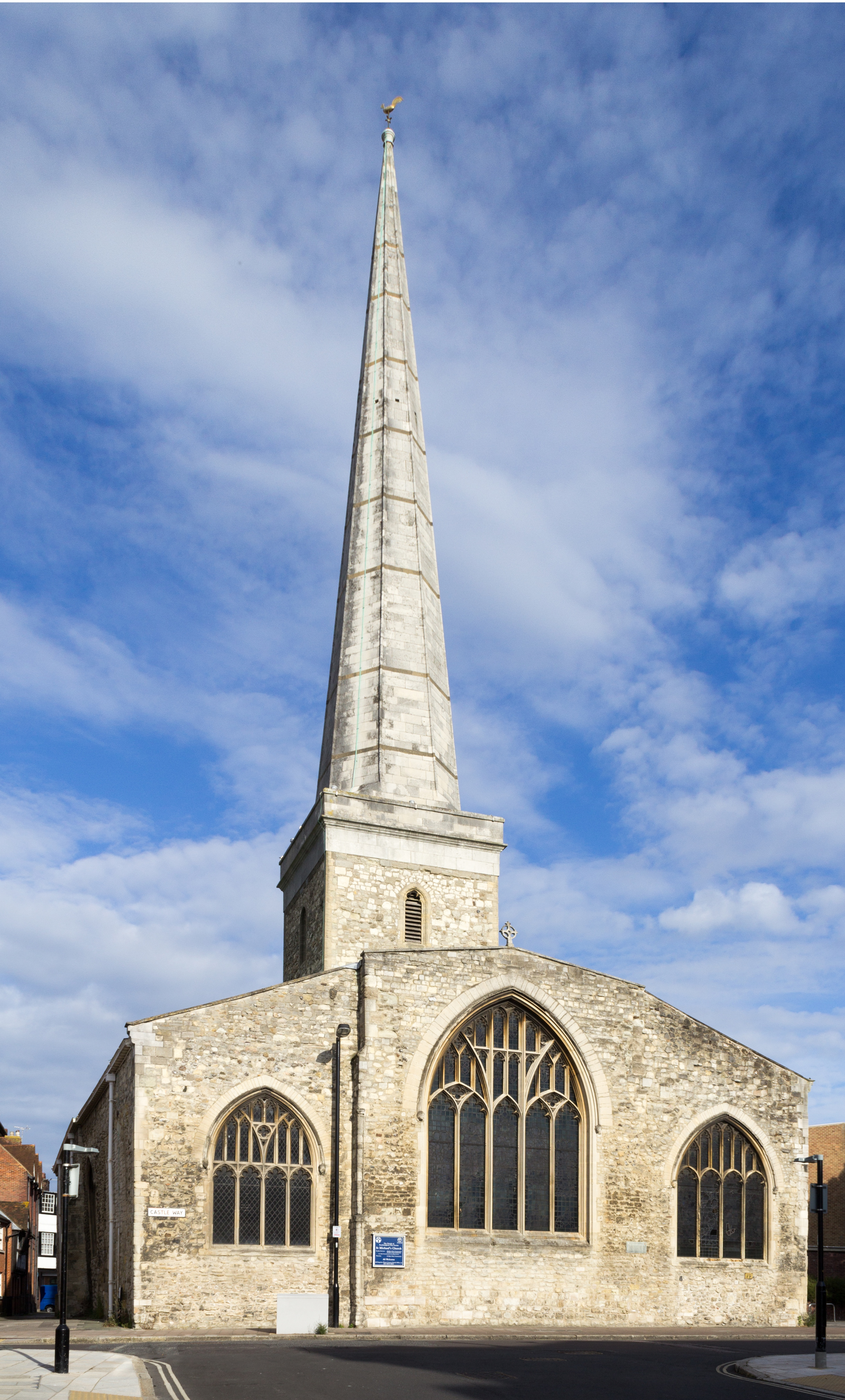 Church of St Micheal, Southampton Wikidata has entry Q7590665 with data related to this building.